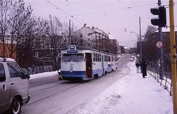 Oslo Sporveier SM91 264 on the Sagene Line at Bentse Bridge on Bentsebrugata.